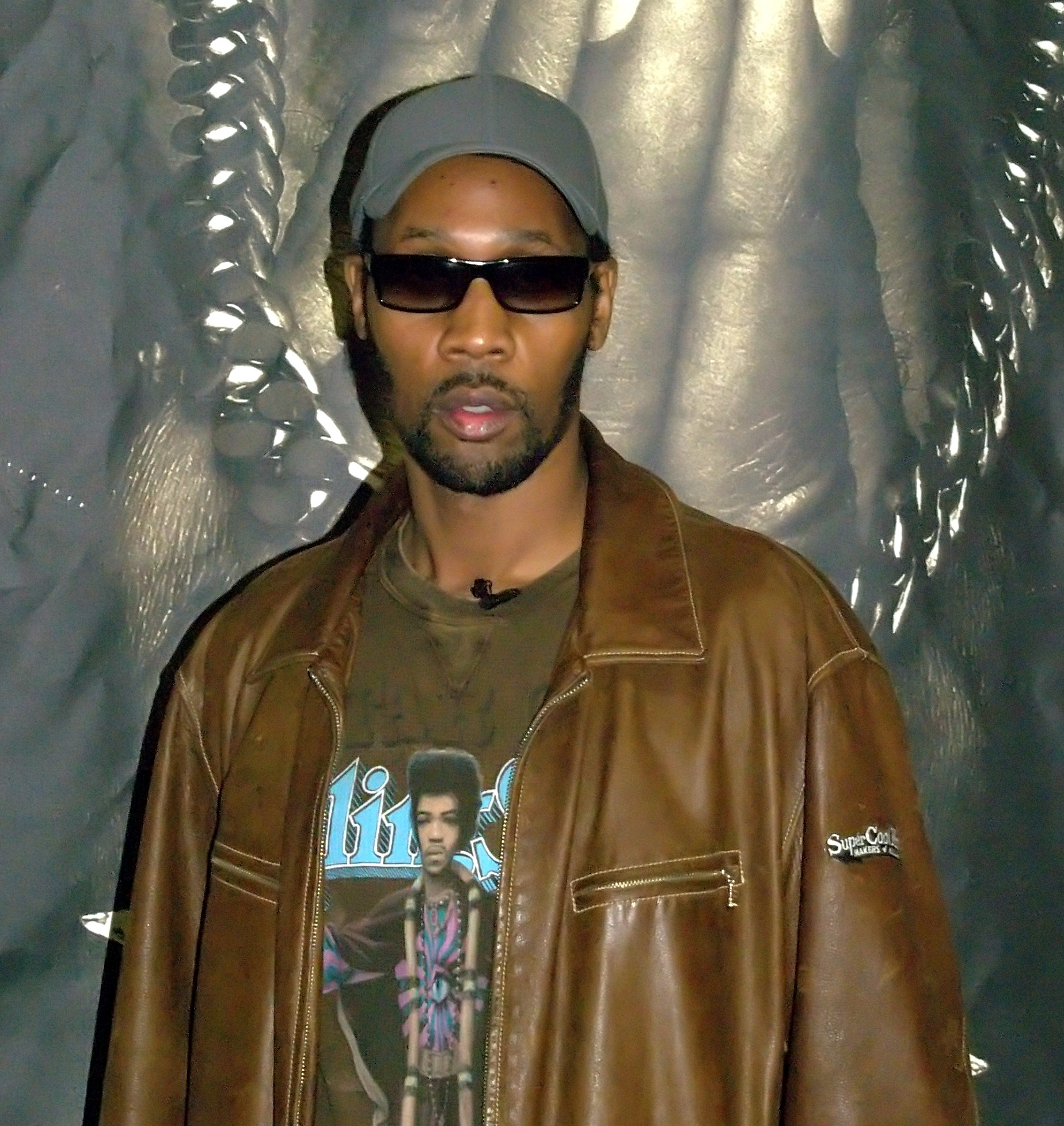 Wu Tang Clan co-founder RZA in New York City's Union Square Barnes & Noble to read from The Tao of Wu, a book about the philosophy behind the Wu Tang Clan.